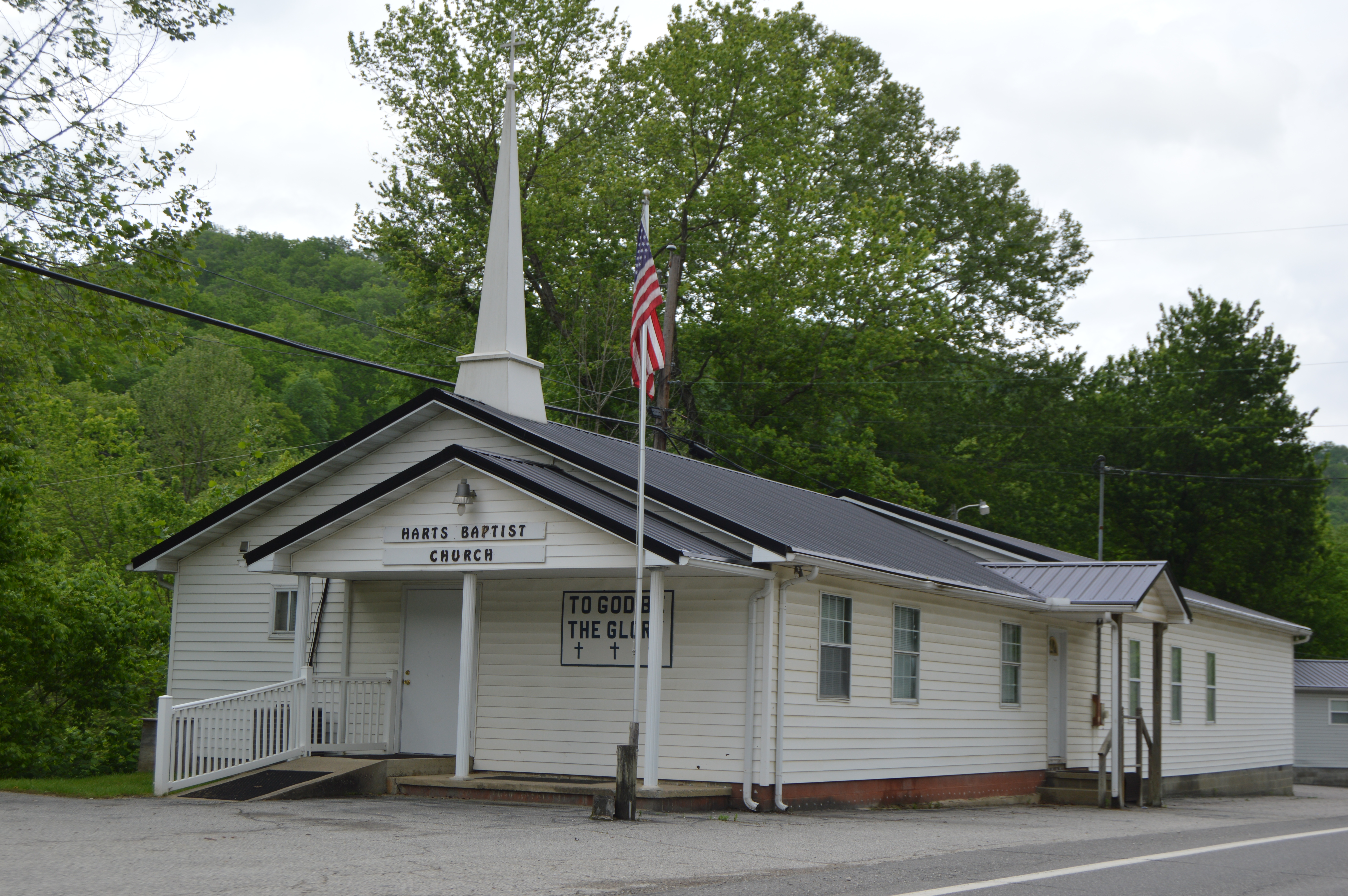 Front and southern side of Harts Baptist Church, located on West Virginia Route 10 at Harts in Lincoln County, West Virginia, United States.